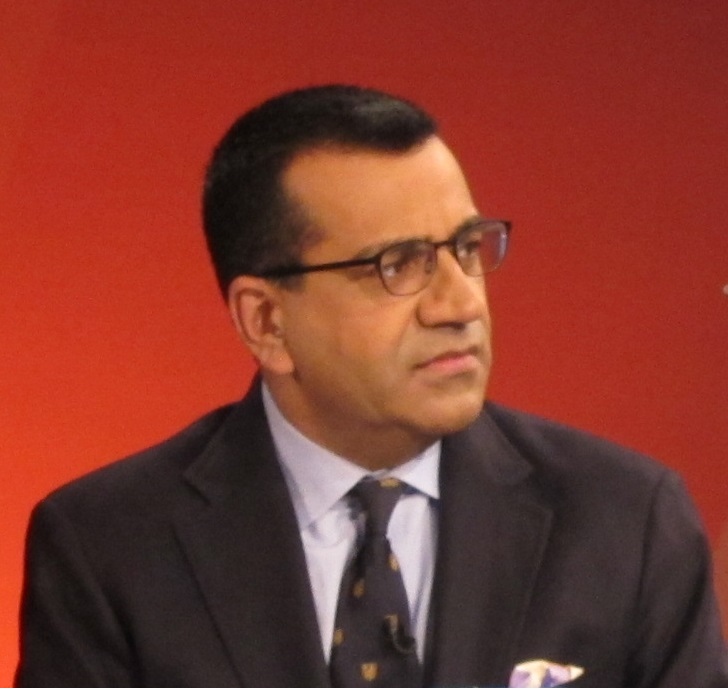 Journalist Martin Bashir